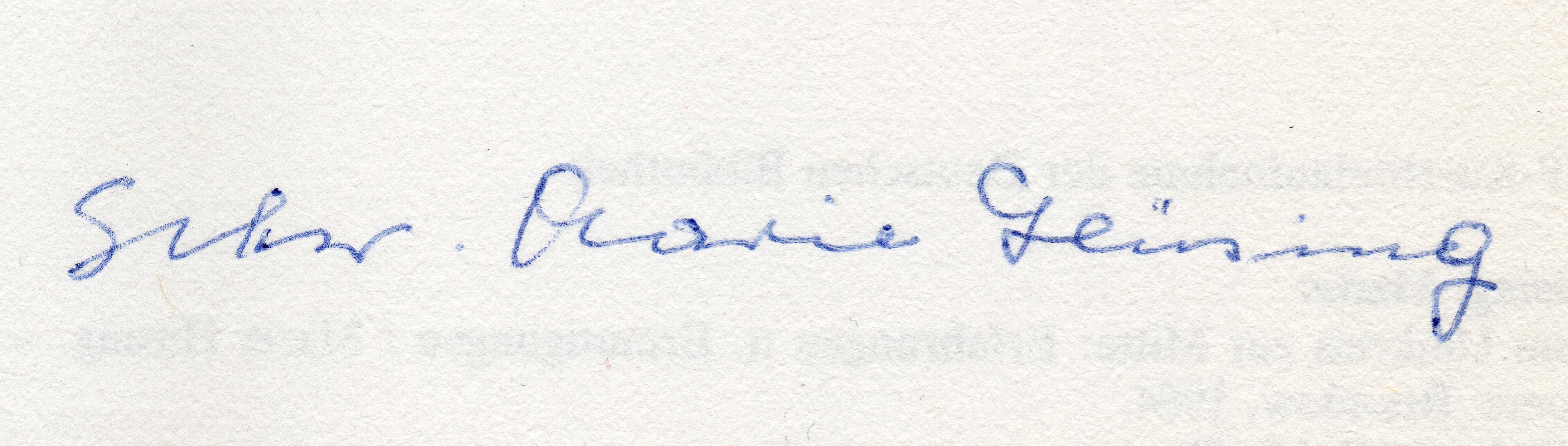 Scan from a Original signature by Marie Hüsing from the hand-signed book "Vom Umkreis zur Mitte"